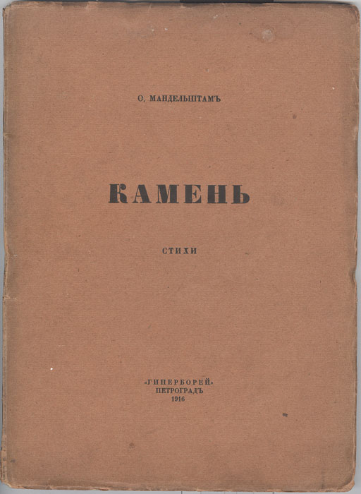 Cover of Stone by Osip Mandelstam (1916)